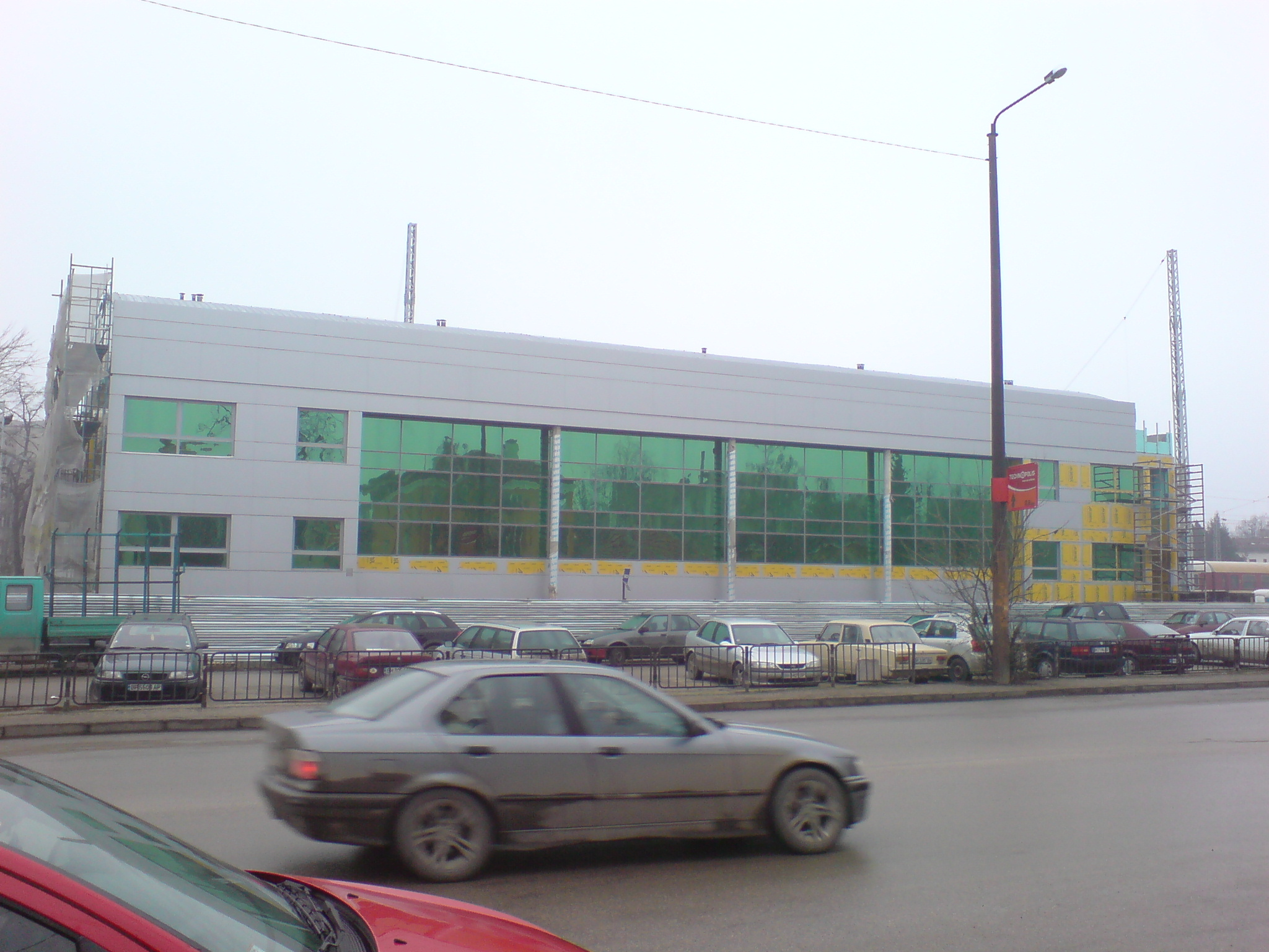 The new passenger railway station in Vidin - 18.01.2011